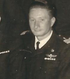 Commander Adam Anav Wientraub